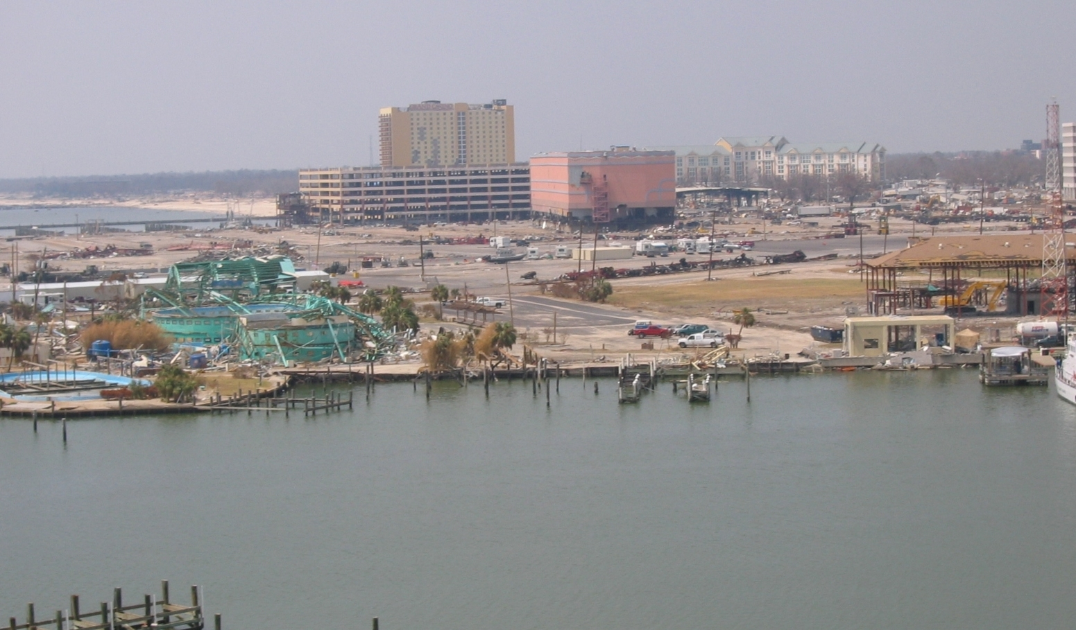 Looking west from Gulfport, Mississippi port facility, 2 weeks after Hurricane Katrina. Marine Life Oceanarium (left), Copa Casino (center), and Gulfport Grand Casino parking garage and hotels (center background). The Copa Casino was a floating barge that washed ashore during the storm and was demolished. Marine Life Oceanarium was destroyed by the storm and was not rebuilt. The Grand Casino was sold and became the Island View Casino.